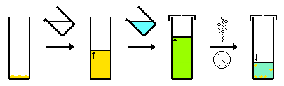 X-ray_crystals_-_slow_evaporation_2_solvent: Solvent added (clear) to compound (orange) to give compound solution (orange) Second solvent added (blue) to compound solution (orange) to give mixed solvent system (green) Vessel sealed but a small hole allows solvent vapour (clear) to slowly evaporation overtime to give crystals (orange) and a non-saturated solution (blue-green). i.e. → Solvent added (clear) to compound (orange) to give compound solution (orange) → Second solvent added (blue) to compound solution (orange) to give mixed solvent system (green) → Vessel sealed but a small hole allows solvent vapour (clear) to slowly evaporate over time to give crystals (orange) and a non-saturated mixed solvent solution (blue-green).